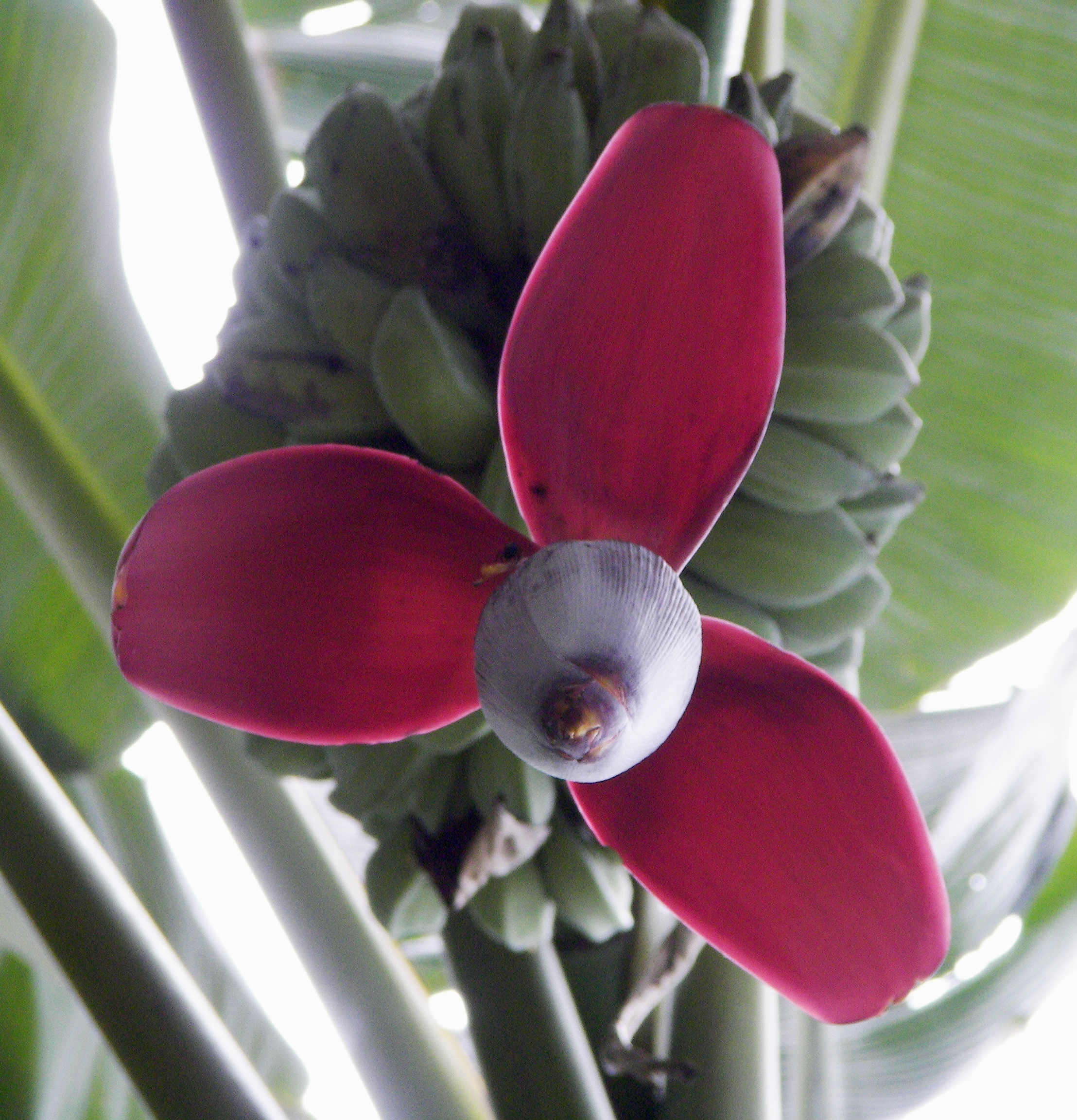 Banana flower, Cahuita, Costa Rica